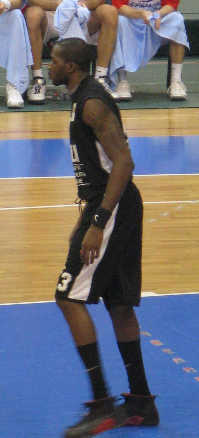 Stephane_Lasme